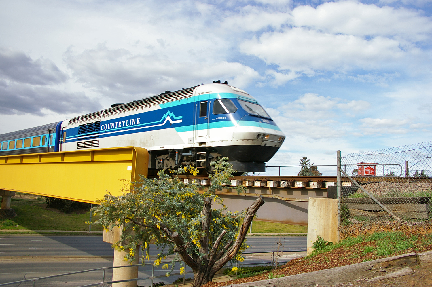 CountryLink XPT 2007 (City of Albury) passes over the Tarcutta Street Overpass in Wagga Wagga.